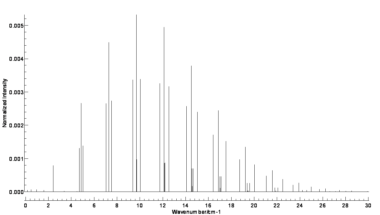 Rotational spectrum of H2CO at 30K using pgopher.